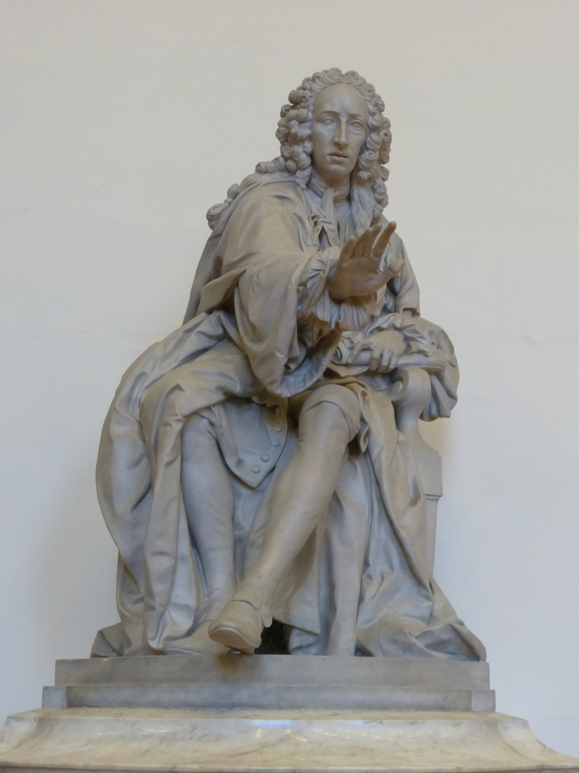 Duncan Forbes of Culloden statue, Parliament Hall, Edinburgh